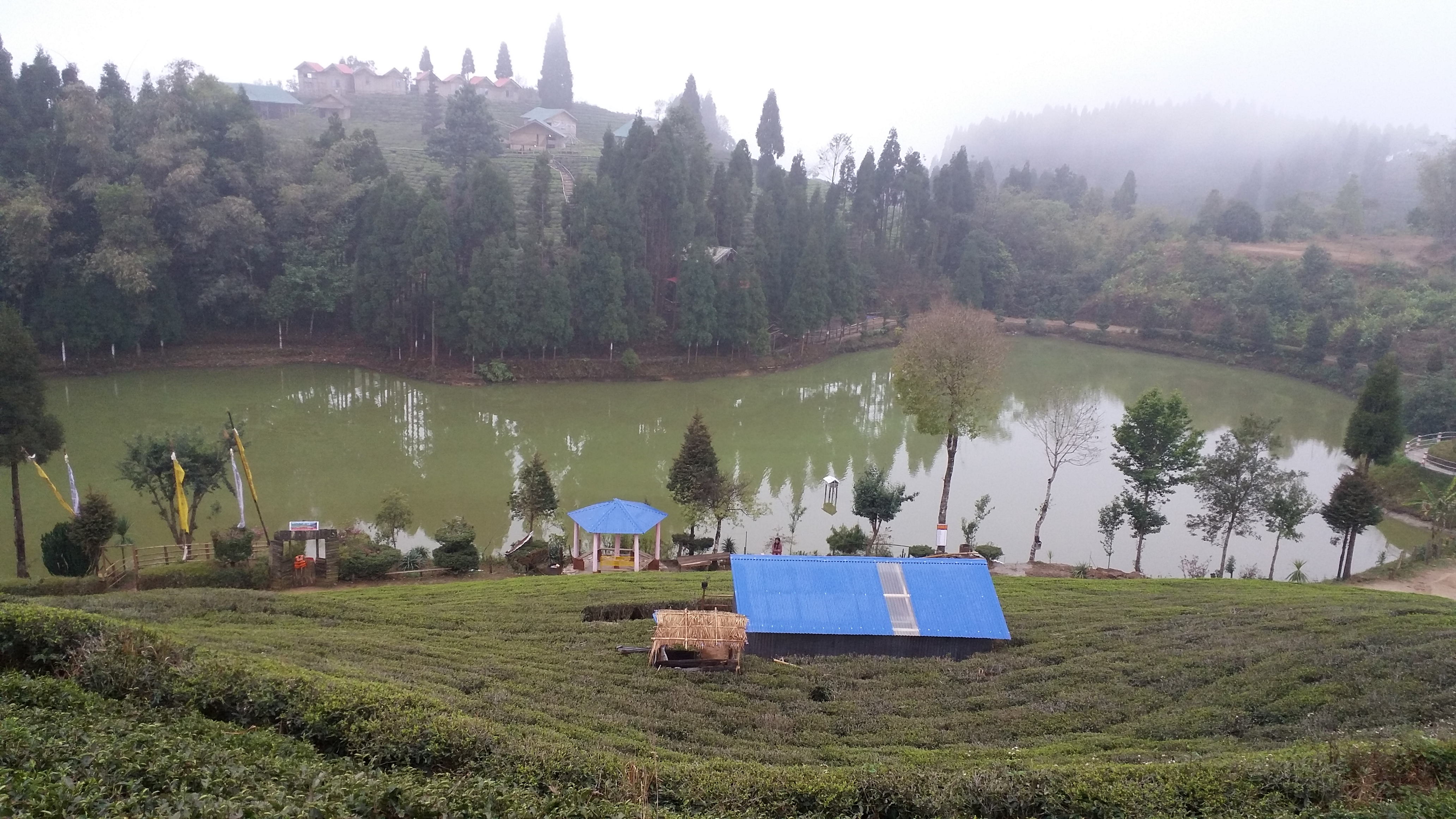 Shree Antu Pokhari at Shree Antu town in Ilam district Nepal. Shree Antu is famous for natural beauty and for viewing the scene of sunrise.